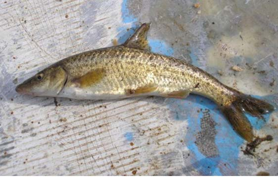 Aulopyge huegelii photographed in Bosnia and Herzegovina. Photo by Kapo Senad